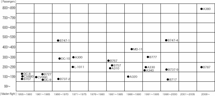 Table of passenger plane of Boeing, Airbus, McDonnell Douglas, Douglas, and CV.